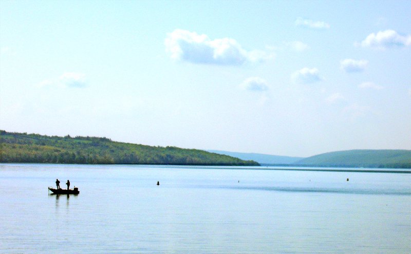 Paul Malo photograph